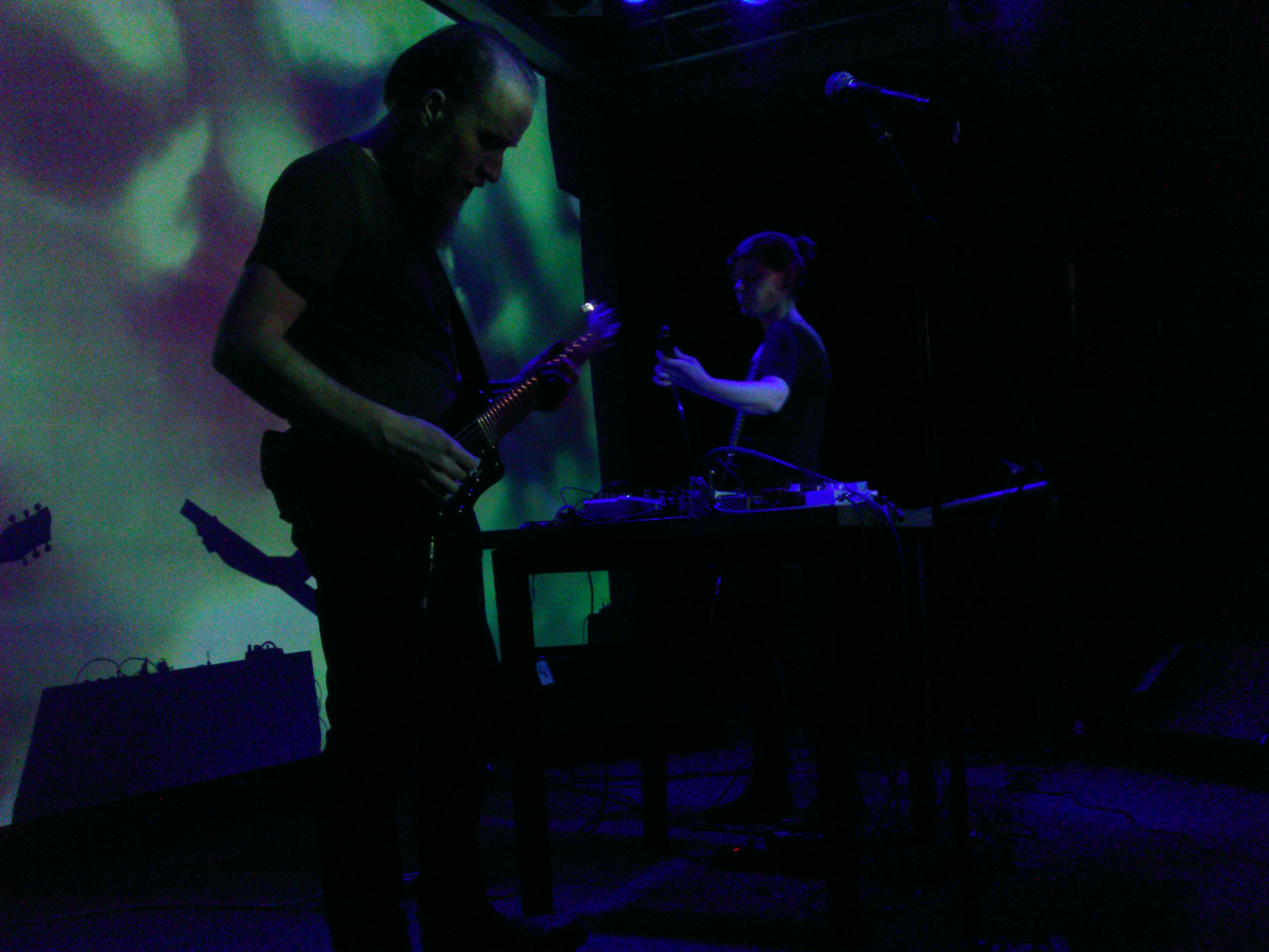 Nadja performing live at The Place, Saint Petersburg, Russia.